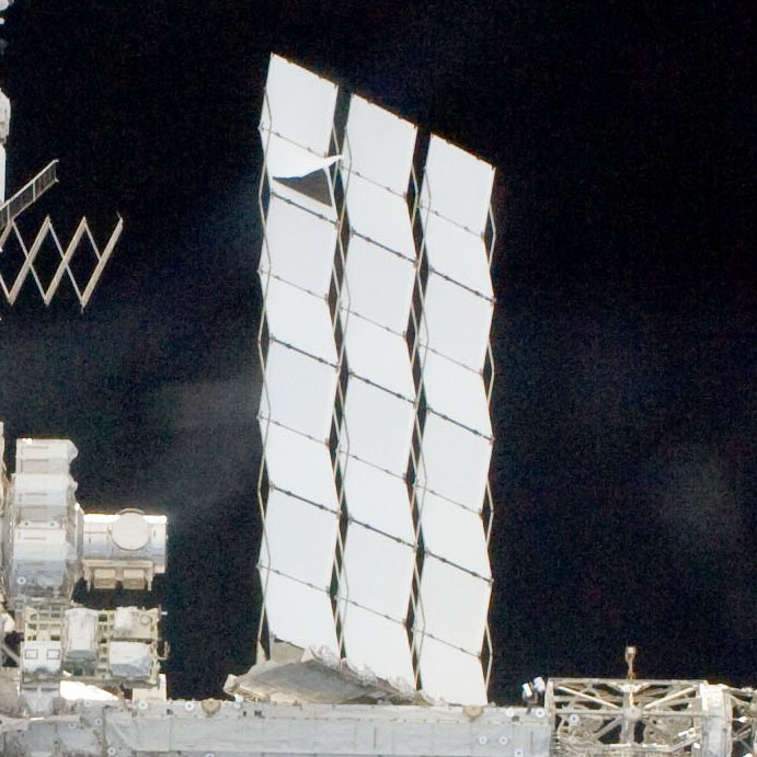 The damaged S1 radiator on the starboard truss of the International Space Station, as seen from the departing Space Shuttle Discovery during STS-119. Image is a cropped section of S119-E-009961.